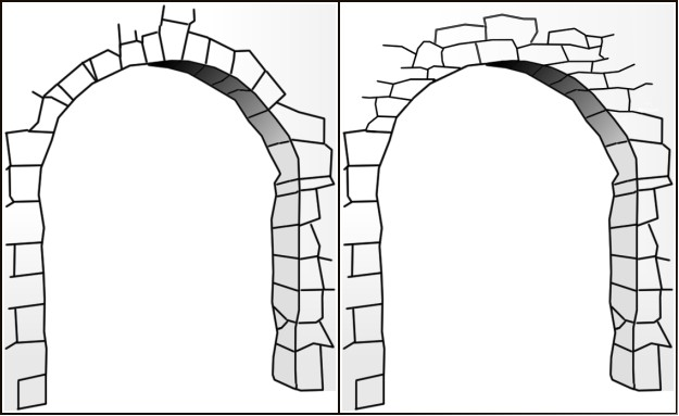 A comparative image of a true arch (left) and a false, or corbel arch (right). Photographer: Anton (2005)